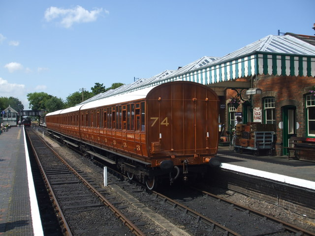 Gresley Quad Art Set at Sheringham station